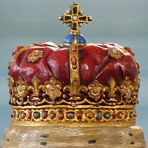 The Royal Crown of Scotland Replica of the Royal Pew inside the Canongate Kirk in Edinburgh's Old Town, Scotland.